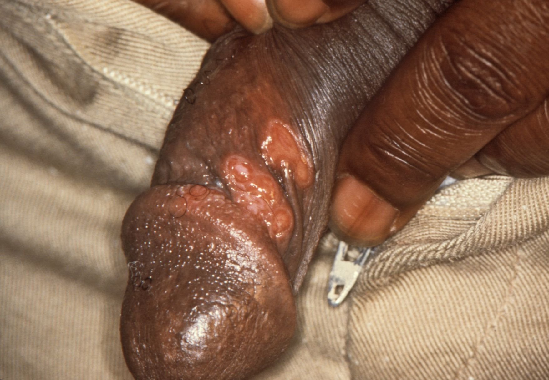 ID#: 6803 Description: This image shows chancres on the penile shaft due to a primary syphilitic infection caused by Treponema pallidum bacteria. The primary stage of syphilis is usually marked by the appearance of a single sore called a chancre. The chancre is usually firm, round, small, and painless. It appears at the spot where T. pallidum bacteria entered the body, and lasts 3-6 weeks, healing on its own. Content Providers(s): CDC/M. Rein, VD Creation Date: 1978 Copyright Restrictions: None - This image is in the public domain and thus free of any copyright restrictions. As a matter of courtesy we request that the content provider be credited and notified in any public or private usage of this image.